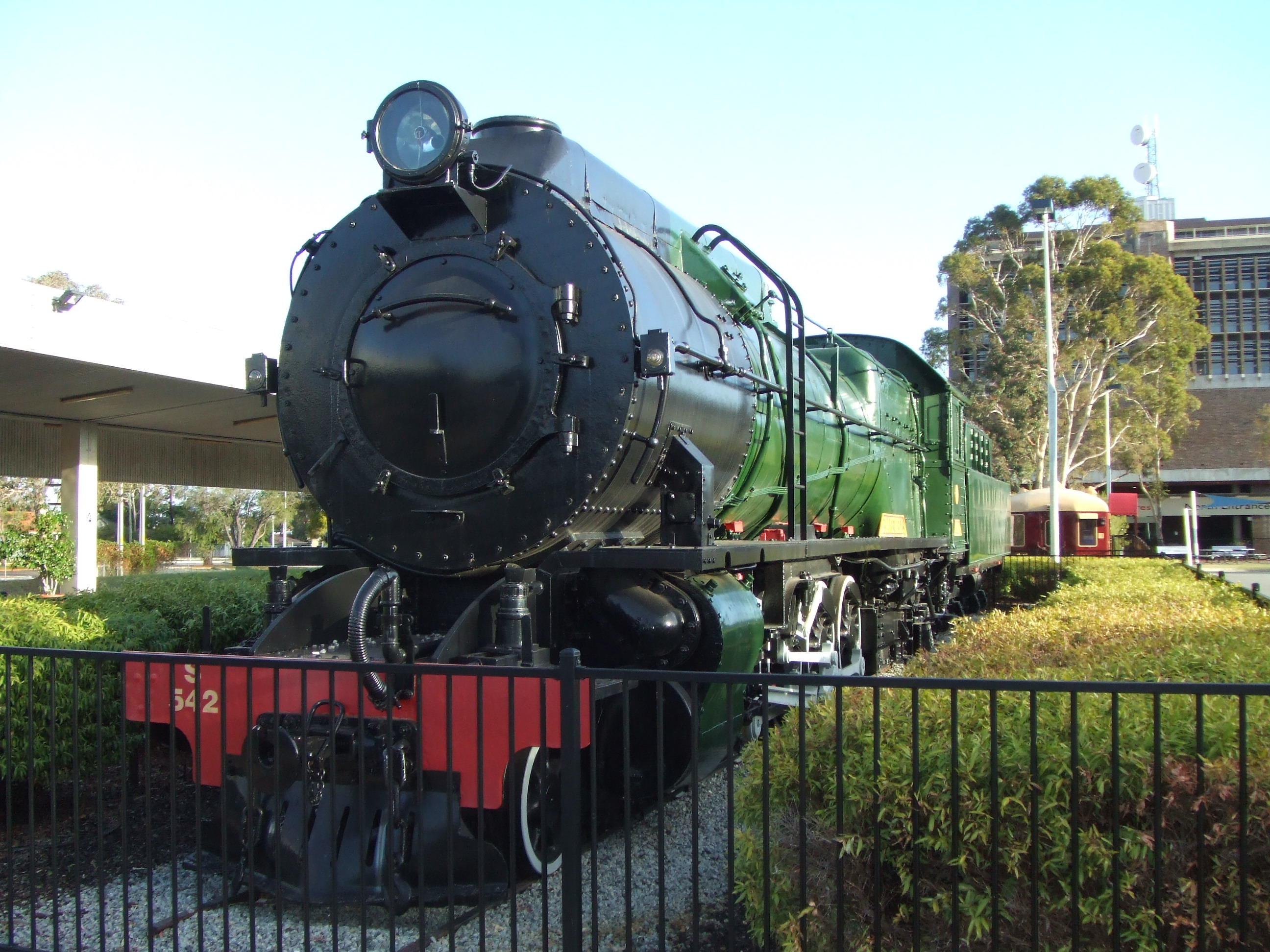 WAGR "S" or "Mountain" Class 4-8-2 No. 542 "Bakewell" (WAGR Midland Works 1943). At East Perth station. 4/06.